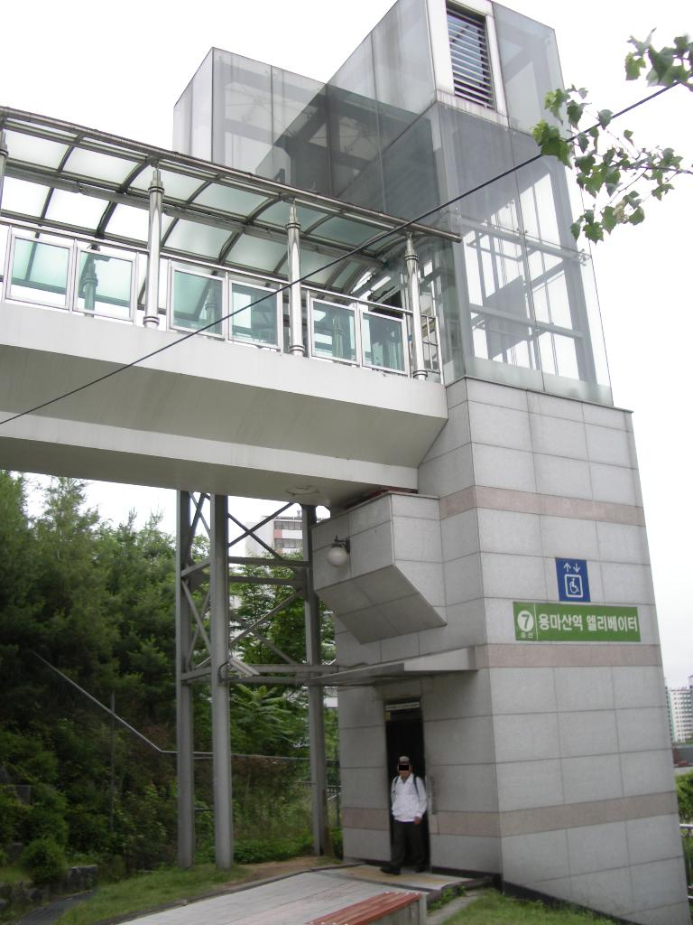 Yongmasan Station entrance elevator